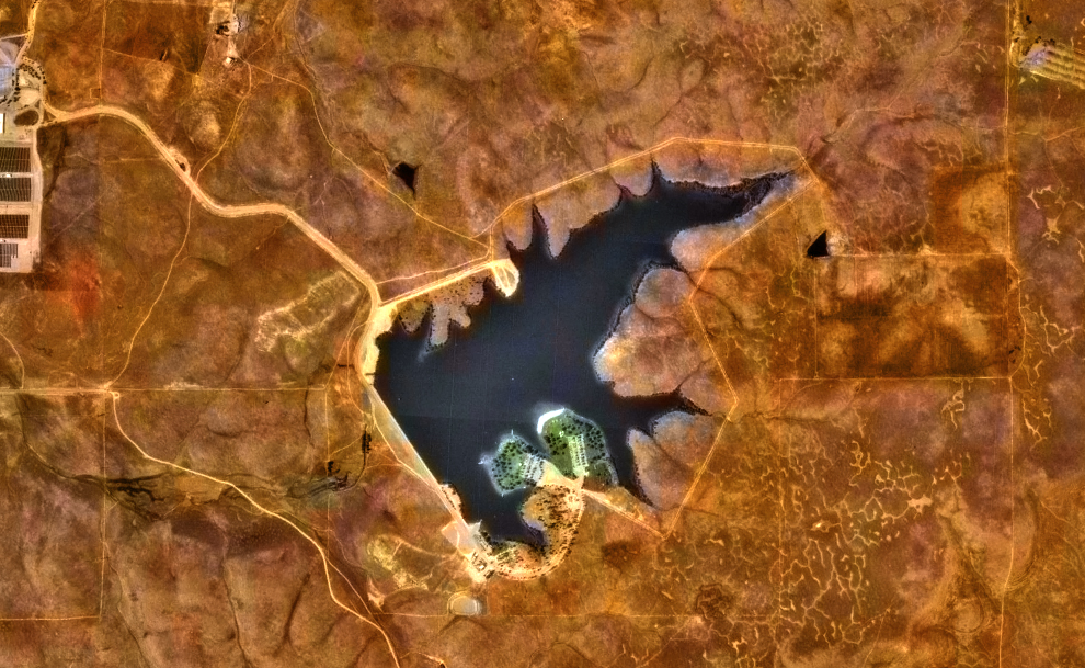 Screen shot of Rancho Seco Recreational Park in NASA World Wind. Landsat 7 and USGS Ortho layers combined in Photoshop and tone mapped.